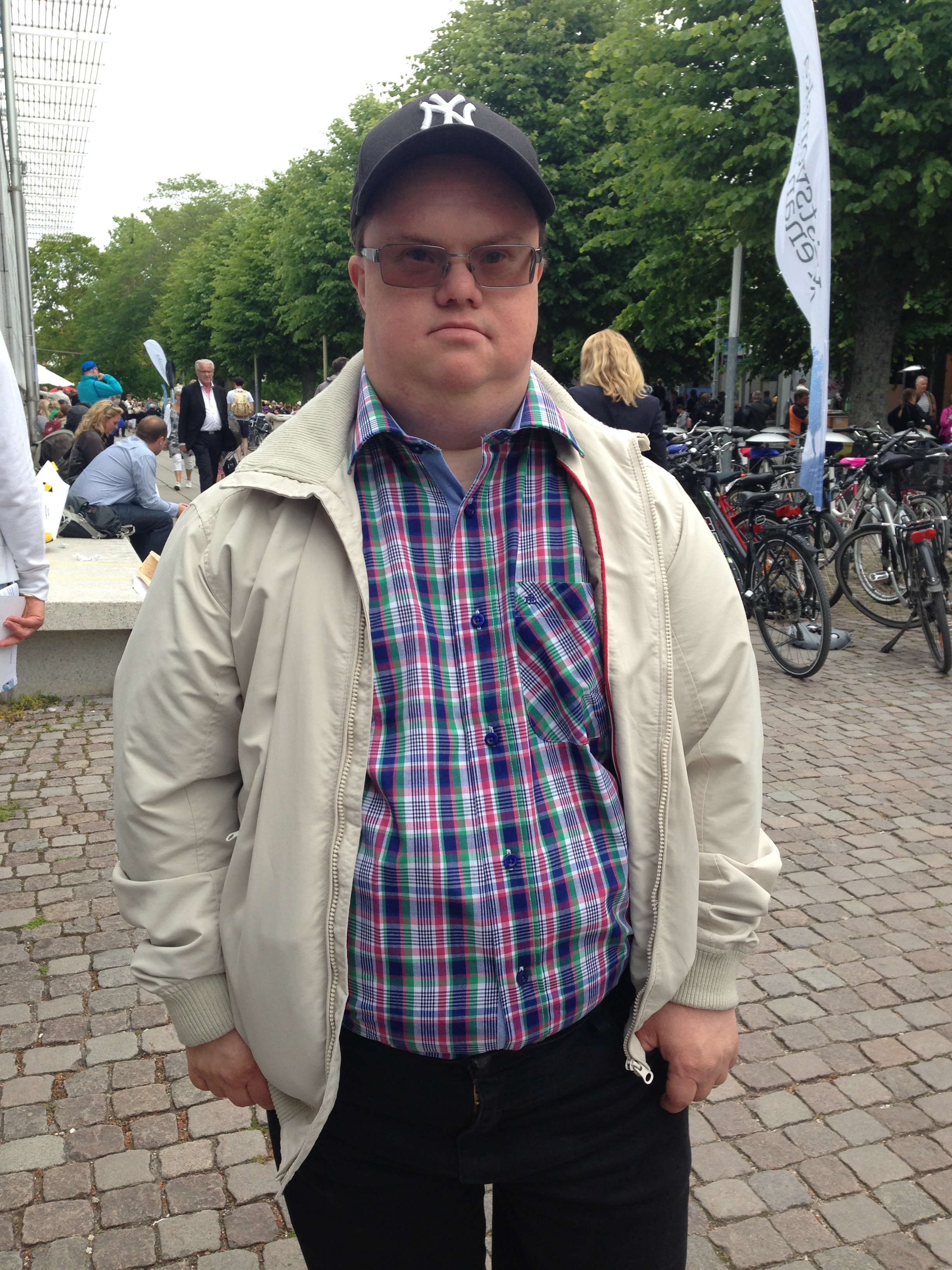 Mats Melin (born 1969), swedish actor